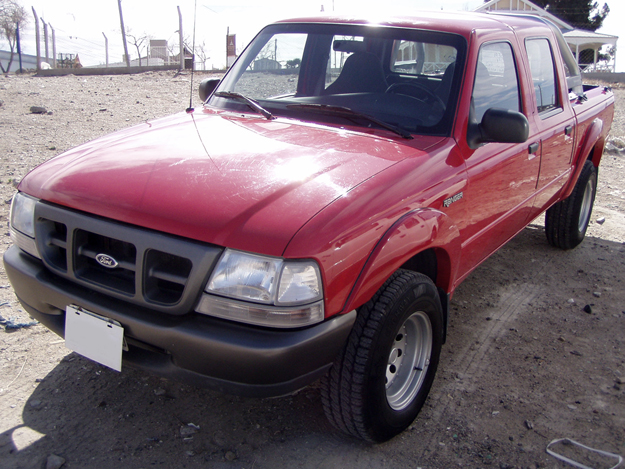 Precisely the 1998–2003 Argentine version in Crew cab Ford Ranger, the 2004–2009 models received several minor updates to the grille, hood, and front bumper, the 2010–present Rangers received new sheetmetal departing from the original stamping.